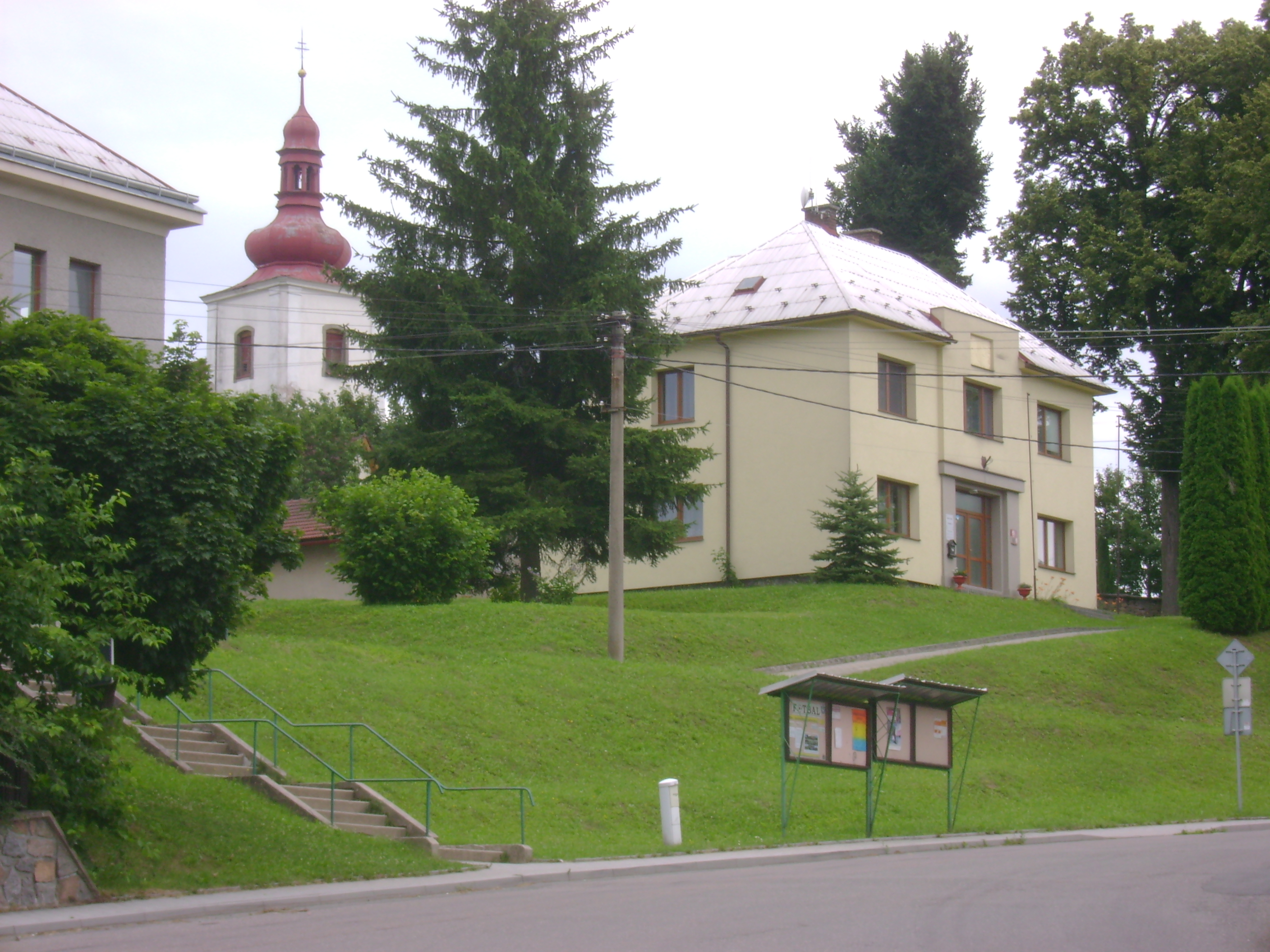 Javornice, Rychnov nad Kněžnou District, the Czech Republic. – Municipal office and the Church of Saint George. Česky: Javornice, okres Rychnov nad Kněžnou. – Obecní úřad a kostel svatého Jiří.